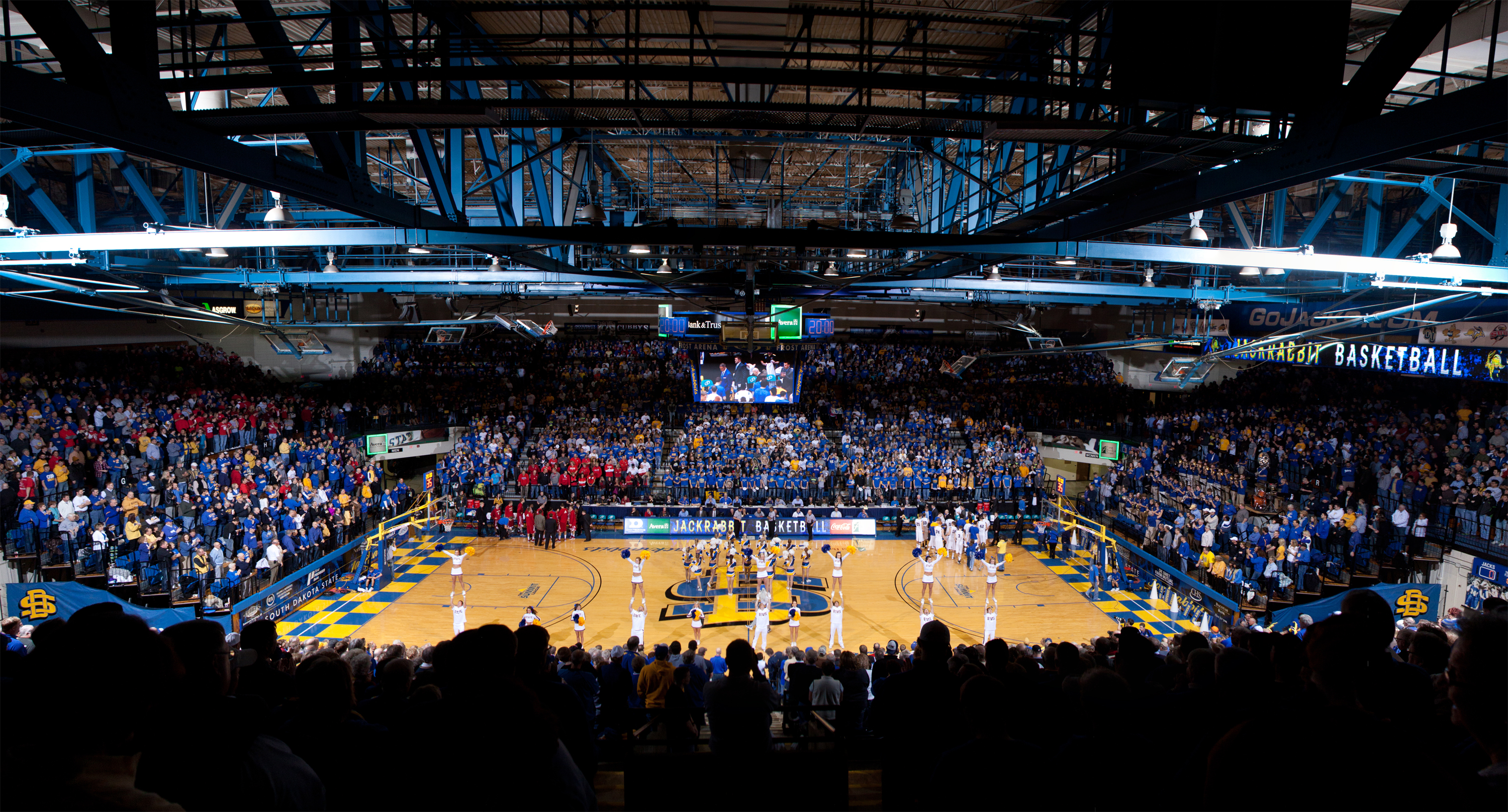 Frost Arena during a South Dakota State basketball game against their rivals University of South Dakota.